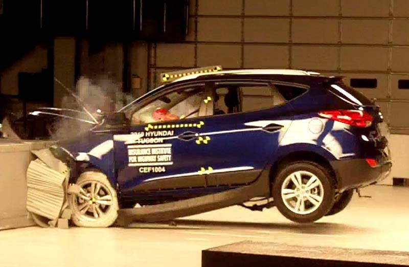 Crash-test of a 2010 Hyundai Tucson GLS at the Insurance Institute for Highway Safety Vehicle Research Center. IIHS crash test page